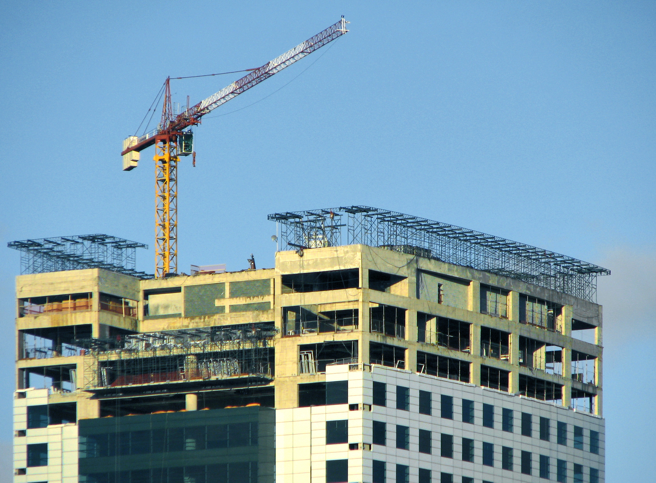 Building in São Paulo City, Brazil. Another version can be found at Flickr.